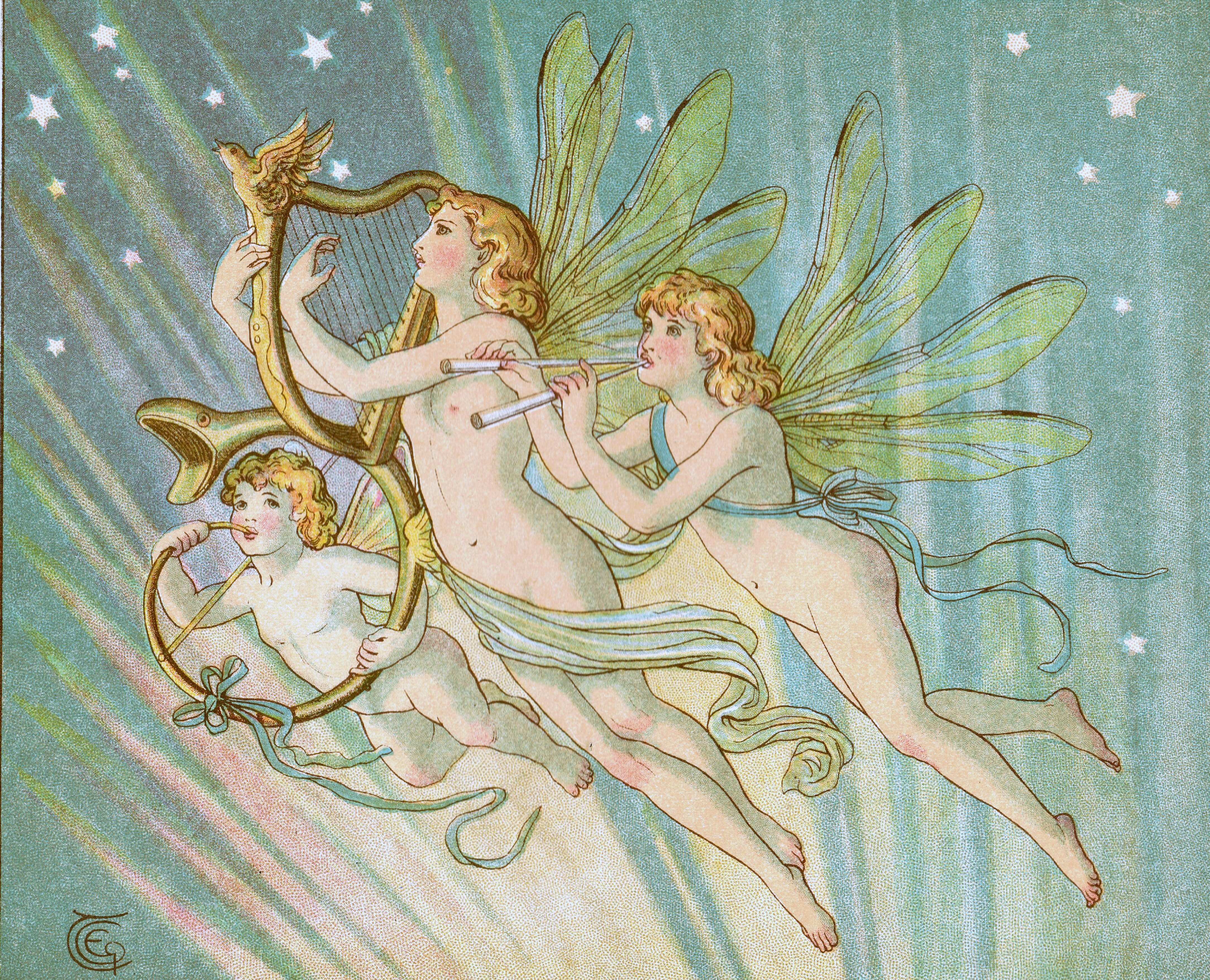 Painting